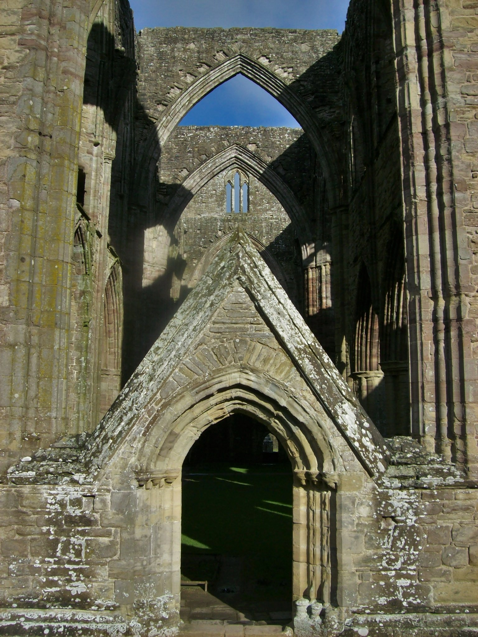 Arches, Tintern Abbey